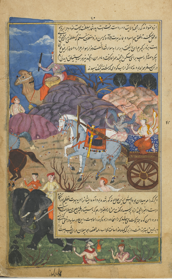 Folio from the Persian version of Ramayana of Valmiki (The Freer Ramayana), Vol. 1, folio 105; recto: Bharata sets out to find Rama; verso: Bharata and his army cross the Ganges 1597-1605 Shyam Sundar , (Indian, Mughal dynasty Opaque watercolor, ink, and gold on paper H: 21.8 W: 13.5 cm Northern India Gift of Charles Lang Freer F1907.271.105